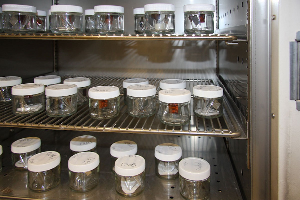 Oddy tests in small sealed jars that are placed in an oven set at 60 degrees Celsius for one month.